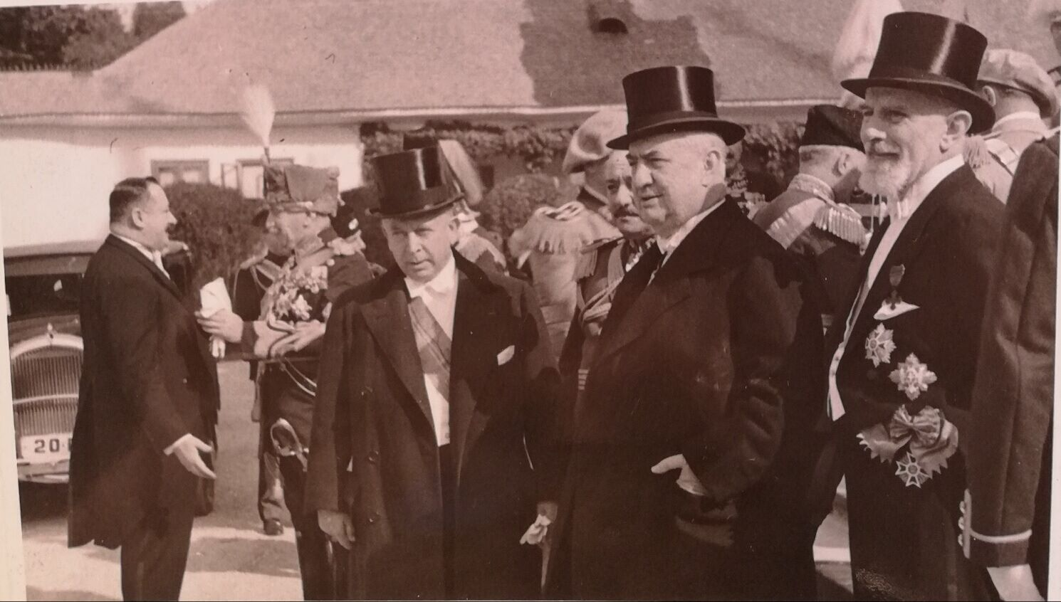 Romanian Government lead by Alexandru Averescu, before the investiture ceremony, in 1918Română: Guvernul condus de Alexandru Averescu în ziua investiturii sale, în 1918. De la stânga la dreapta: Fotin Enescu (profil), Alexandru Averescu, Constantin Sărăţeanu, general Ioan Culcer (parţial în spate), Constantin Argetoianu, general Constantin Iancovescu (cu spatele) şi Matei B. Cantacuzino.